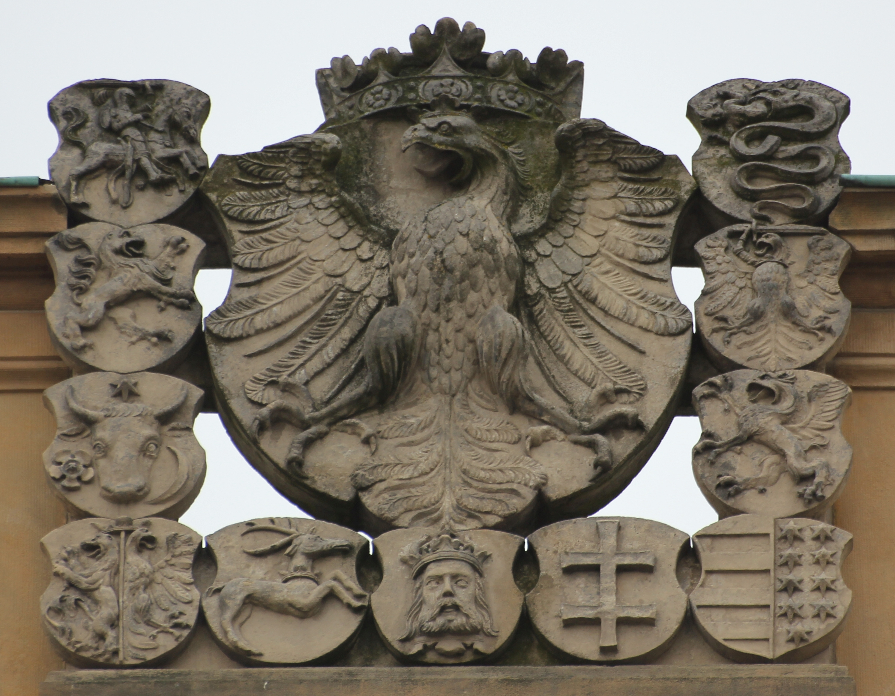 Brzeg - Castle